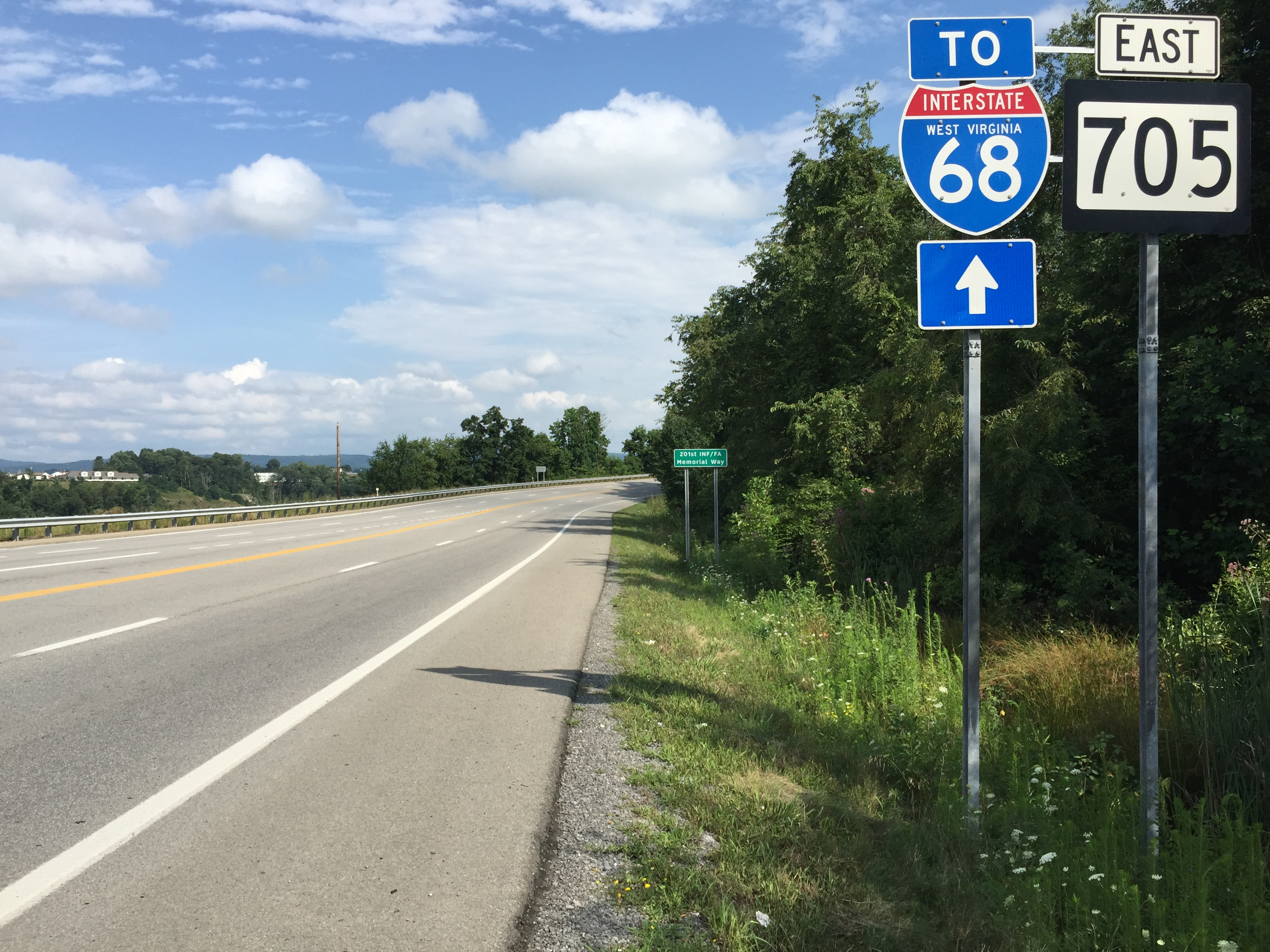 View east along West Virginia State Route 705 (201st Infantry Division Memorial Highway) at Stewartstown Road (Monongalia County Route 67) in Chestnut Ridge, Monongalia County, West Virginia